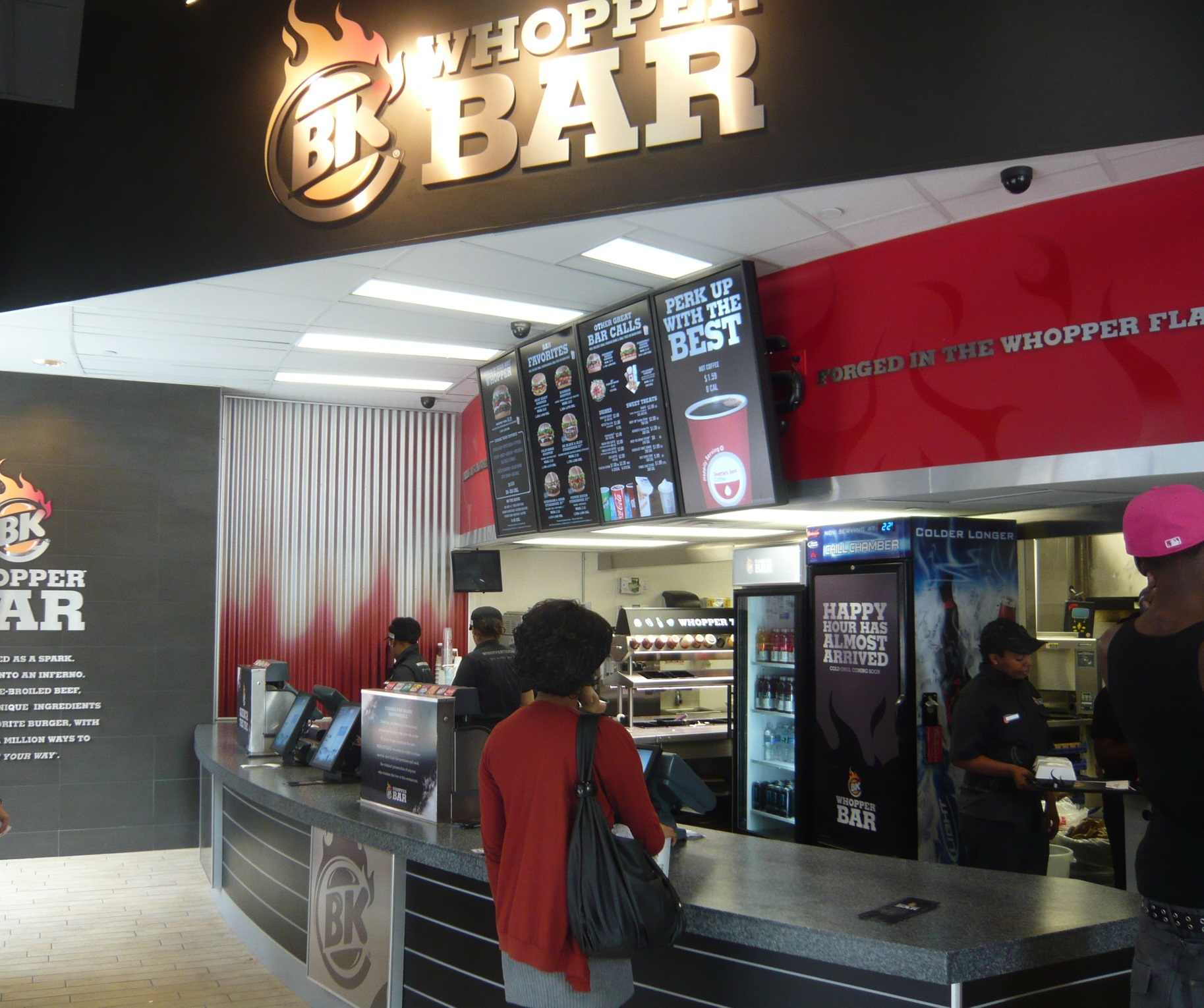 Burger King BK Whopper Bar in Manhattan, New York.